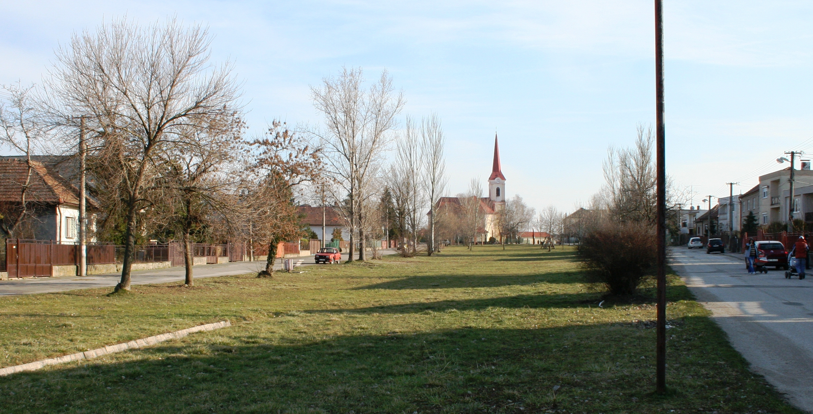 The village of Tvrdosovce (Tardoskedd) in Slovakia